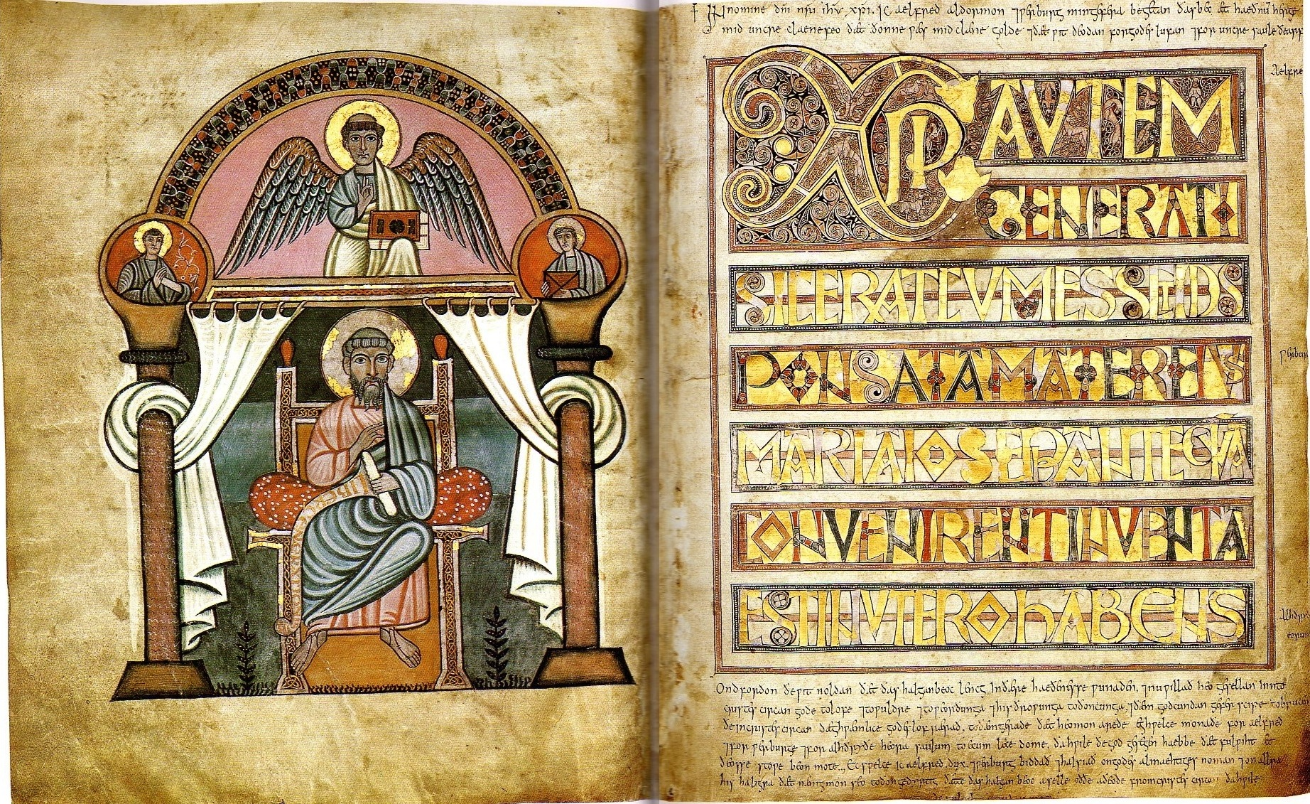 Folios 9v and 10r of the Stockholm Codex Aureus, also known as the Codex Aureus of Canterbury. Produced in Southumbria, possibly Canterbury, in the mid 8th century. Folio 9v: Evangelist Portrait of Matthew. Folio 10r illuminated and decorated text of the Gospel of Matthew starting at Mathew 1:18. Each folio was scanned separately and merged into one image by David Stapleton (Dsmdgold)